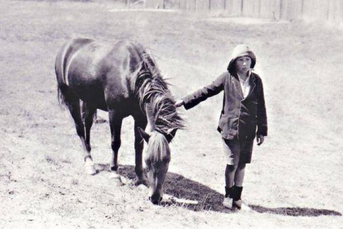 Represents the start of his 600 mile journey.